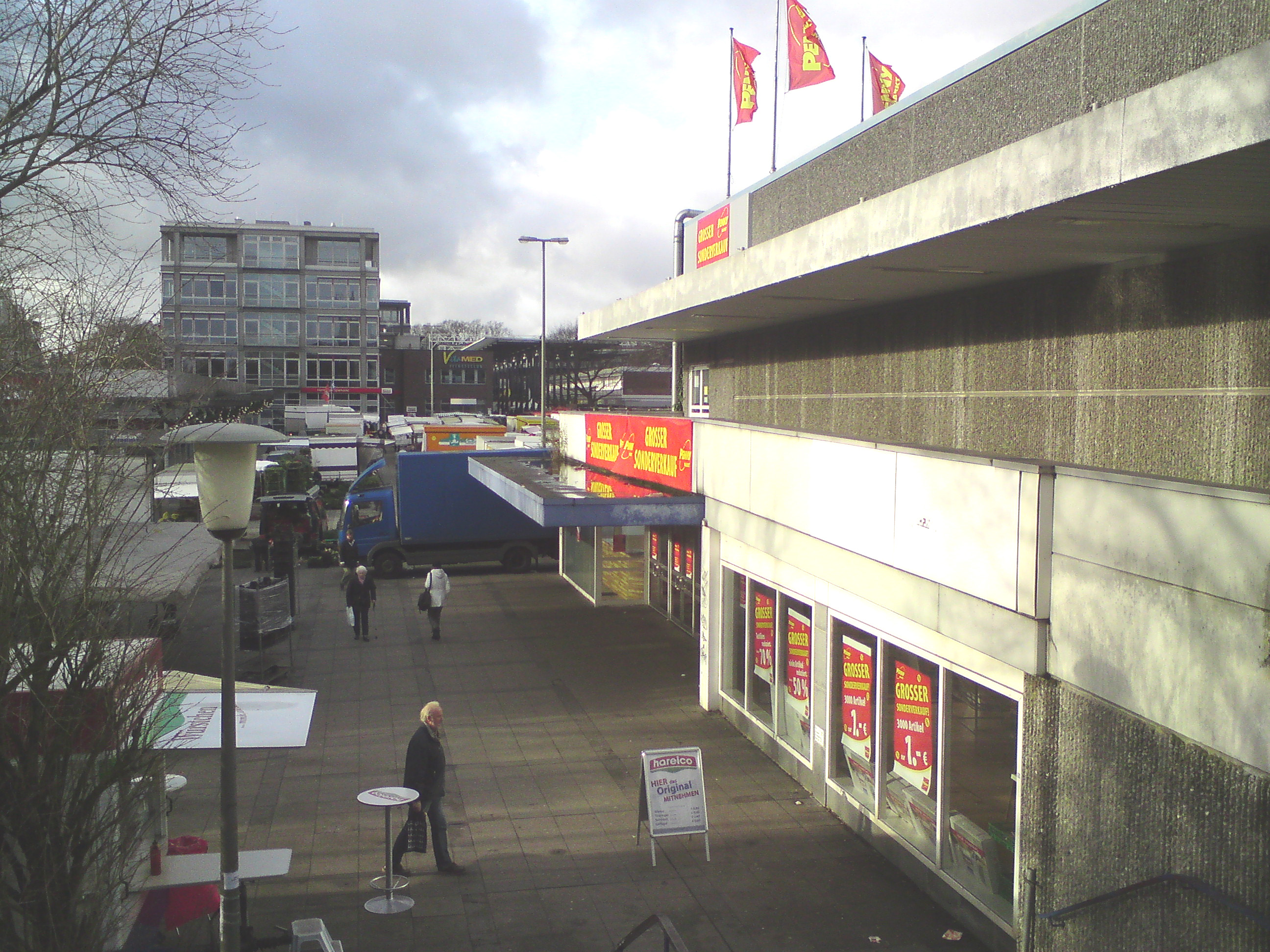 Shopping Centre Langenhorner Markt in Hamburg-Langenhorn, Germany The Langenhorn Market is a marketplace in the Hamburg quarter of Langenhorn.